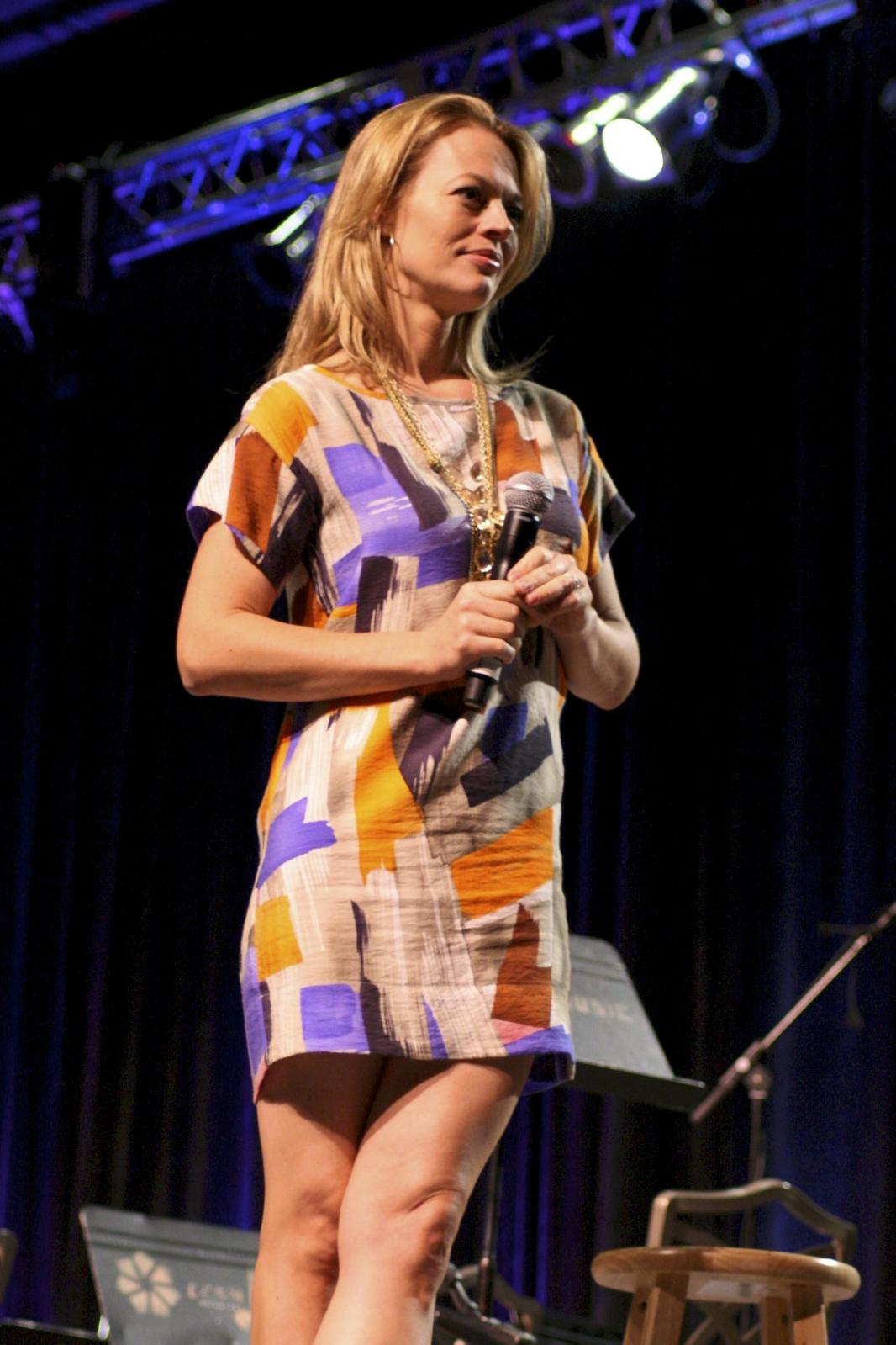 Actress Jeri Ryan on stage at the 2010 Las Vegas Star Trek Convention in Nevada. Jeri Ryan first gained public prominence by being chosen as the winner of the 1989 Miss Illinois state beauty pageant. She graduated from Northwestern University in 1990 with a BA degree in Theatre. Ryan then pursued employment as an actress in Los Angeles and enjoyed her biggest career break when she was chosen to play the role of Seven of Nine, a de-assimilated Borg drone who had been freed from the Borg's collective consciousness, in 1997 in the science fiction TV series Star Trek: Voyager. In 2001, Ryan won the prestigious Saturn Award for Best Supporting Actress on Television in her role on Star Trek Voyager. Since the end of Voyager, she has acted in Boston Public and in several other TV roles. She is today the mother of two children.